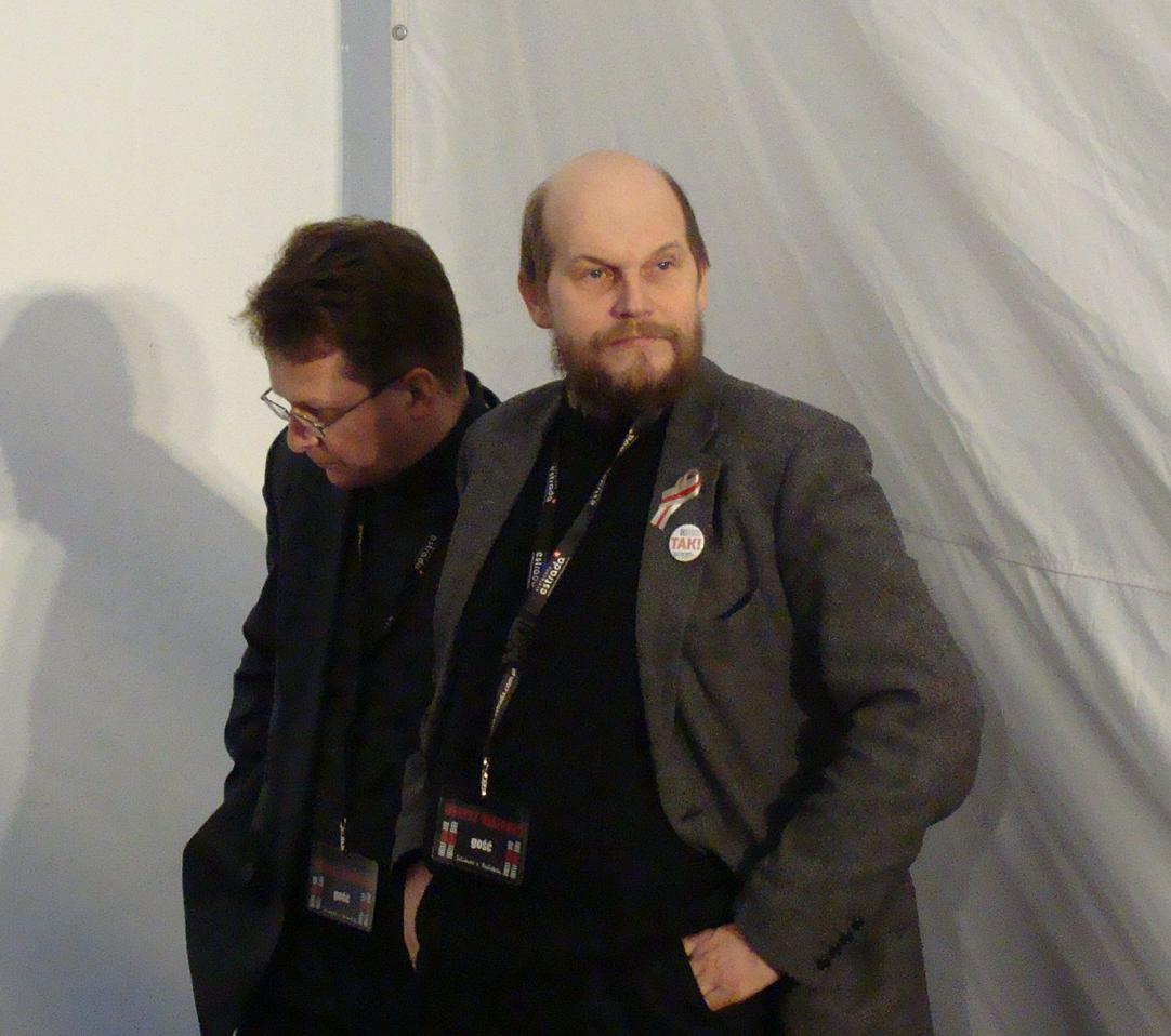 Vintsuk Vyachorka (left) and Lavon Barshcheuski (right) on the backstage of the Concert of Solidarity with Belarus, Warsaw, 22.03.2009.